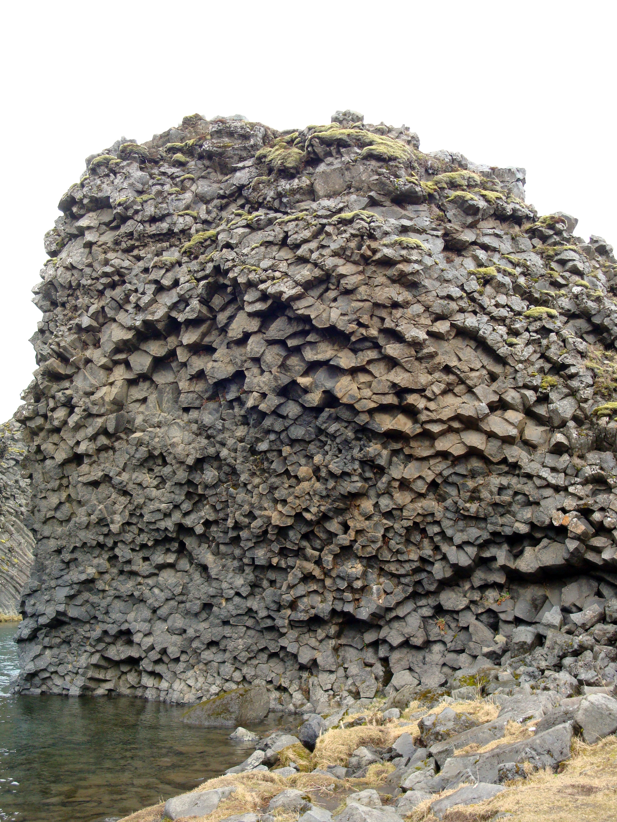 Basalt columns near Hjálparfoss, a waterfall in south Iceland off the Fossá river